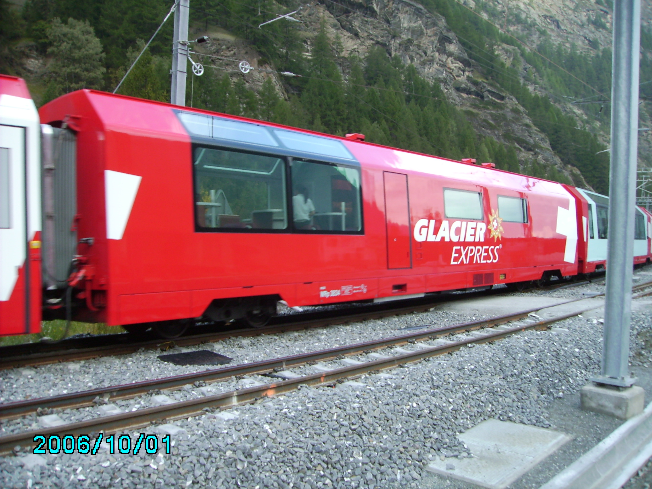 New service car with kitchen and bar MGB WRp 3834 of the Glacier Express, introduced in 2006.The meal is served at the seat in all cars.